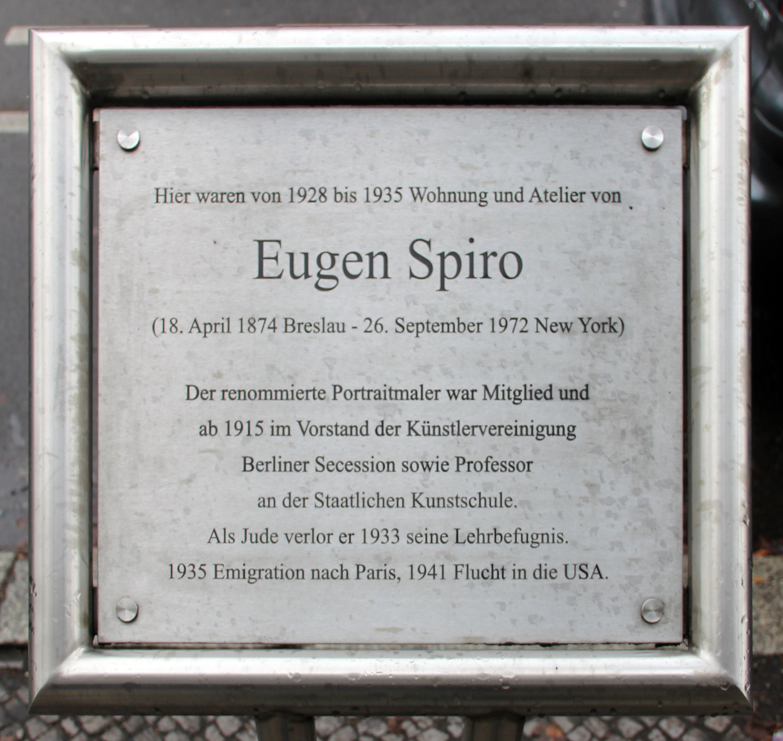 Memorial plaque, Eugen Spiro, Reichsstraße 106, Berlin-Westend, Deutschland